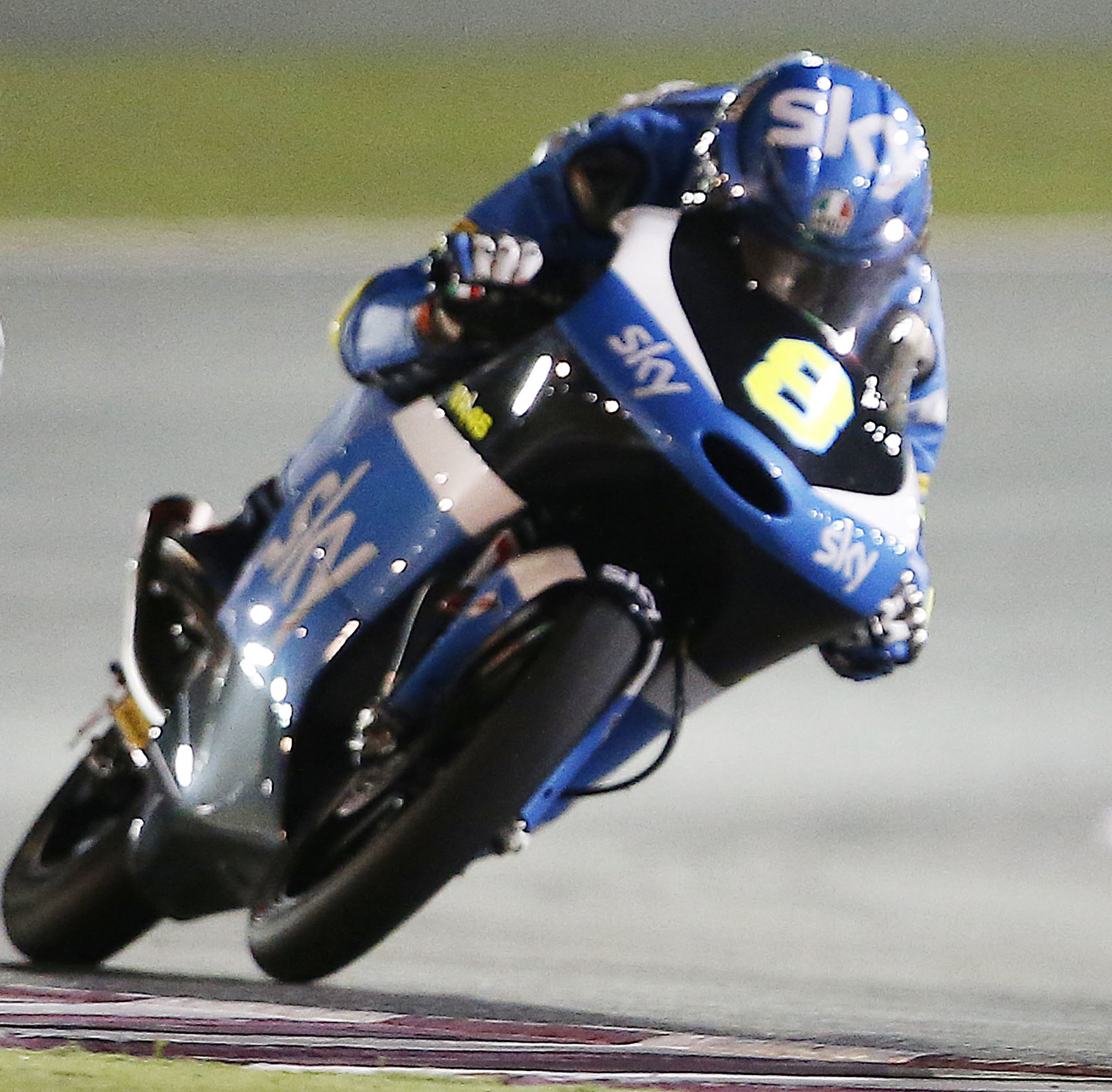 Nicolò Bulega, Jorge Navarro and Francesco Bagnaia during 2016 Qatar motorcycle Grand Prix